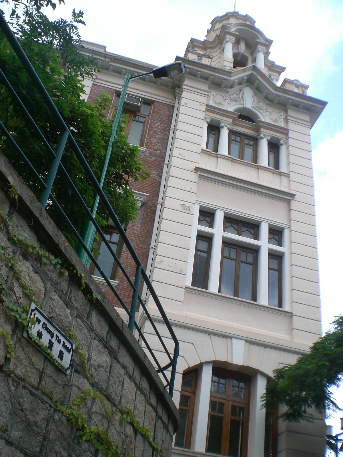 Main building, University of Hong Kong, 香港大學 本部大樓陸佑堂